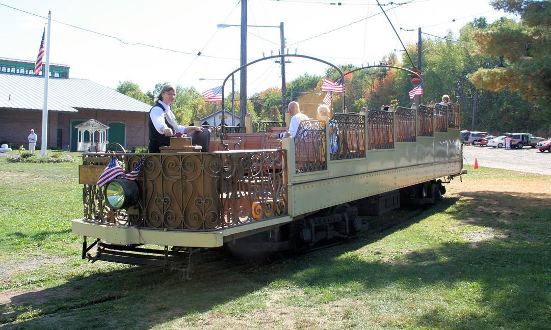 Ex-Montreal Tramways Company car 4, built in 1924 and used for city tours. (Flickr description, not about the specific photo: The Connecticut Electric Railway Association, Inc. is the owner and operator of The Connecticut Trolley Museum. Founded in October 1940, it is USA's oldest incorporated organization dedicated to the preservation of the trolley era. With open-air and enclosed trolleys, visitors can also enjoy a three mile round trip streetcar ride.)